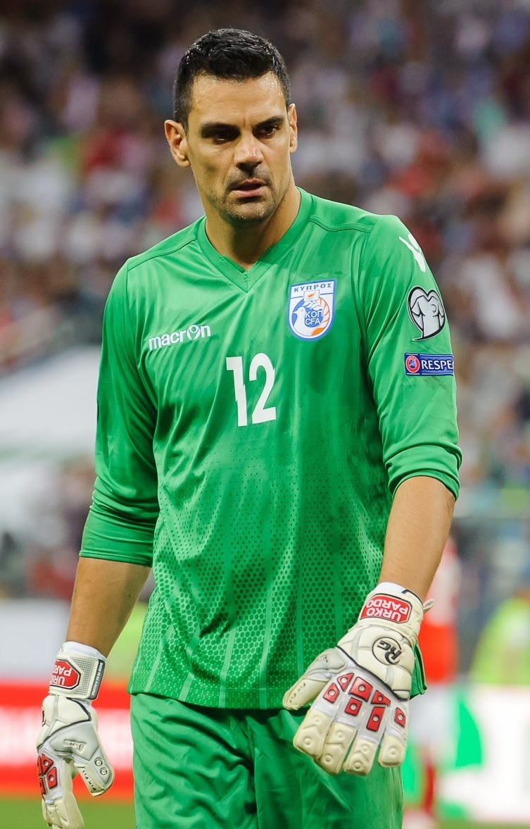 Urko Pardo with Cyprus national team in an Euro 2020 qualifier against Russia in Nizhny Novgorod, Russia.